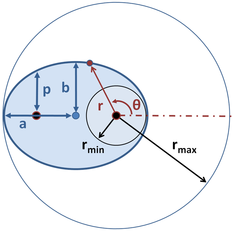 Ellipse, showing semi-latus rectum